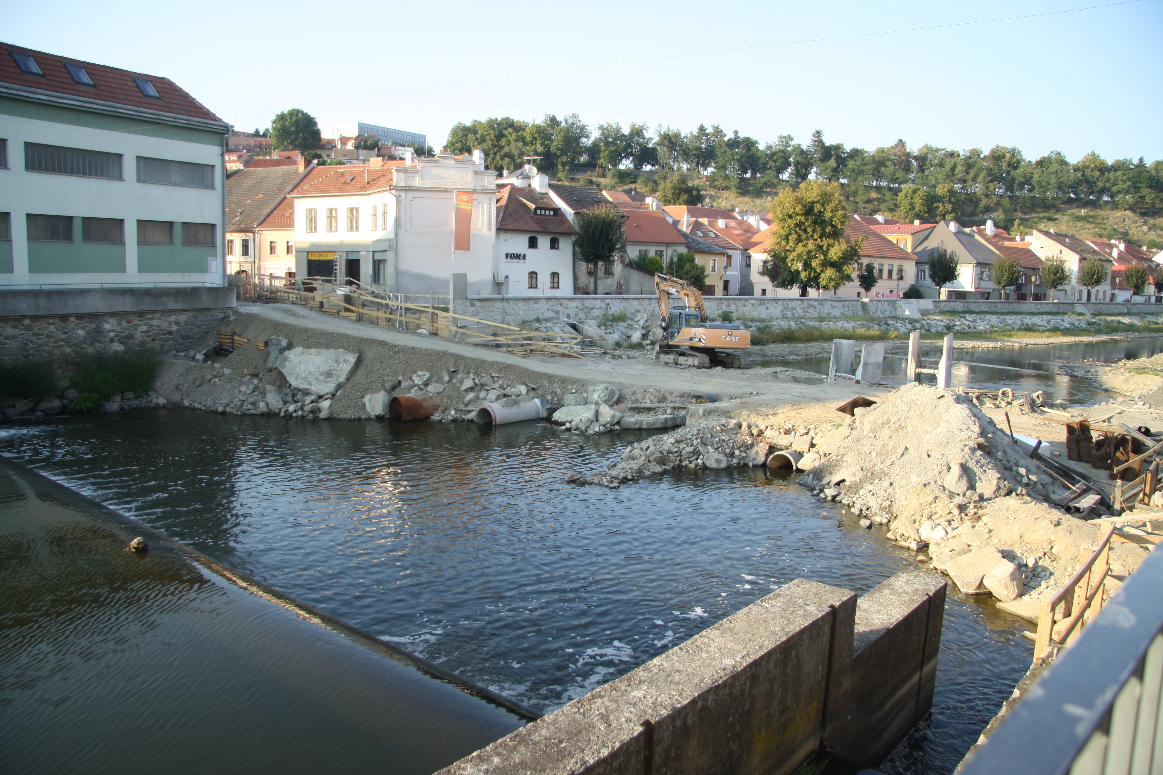 Construction of Podklášterský bridge in August 2016 in Třebíč, Třebíč District.